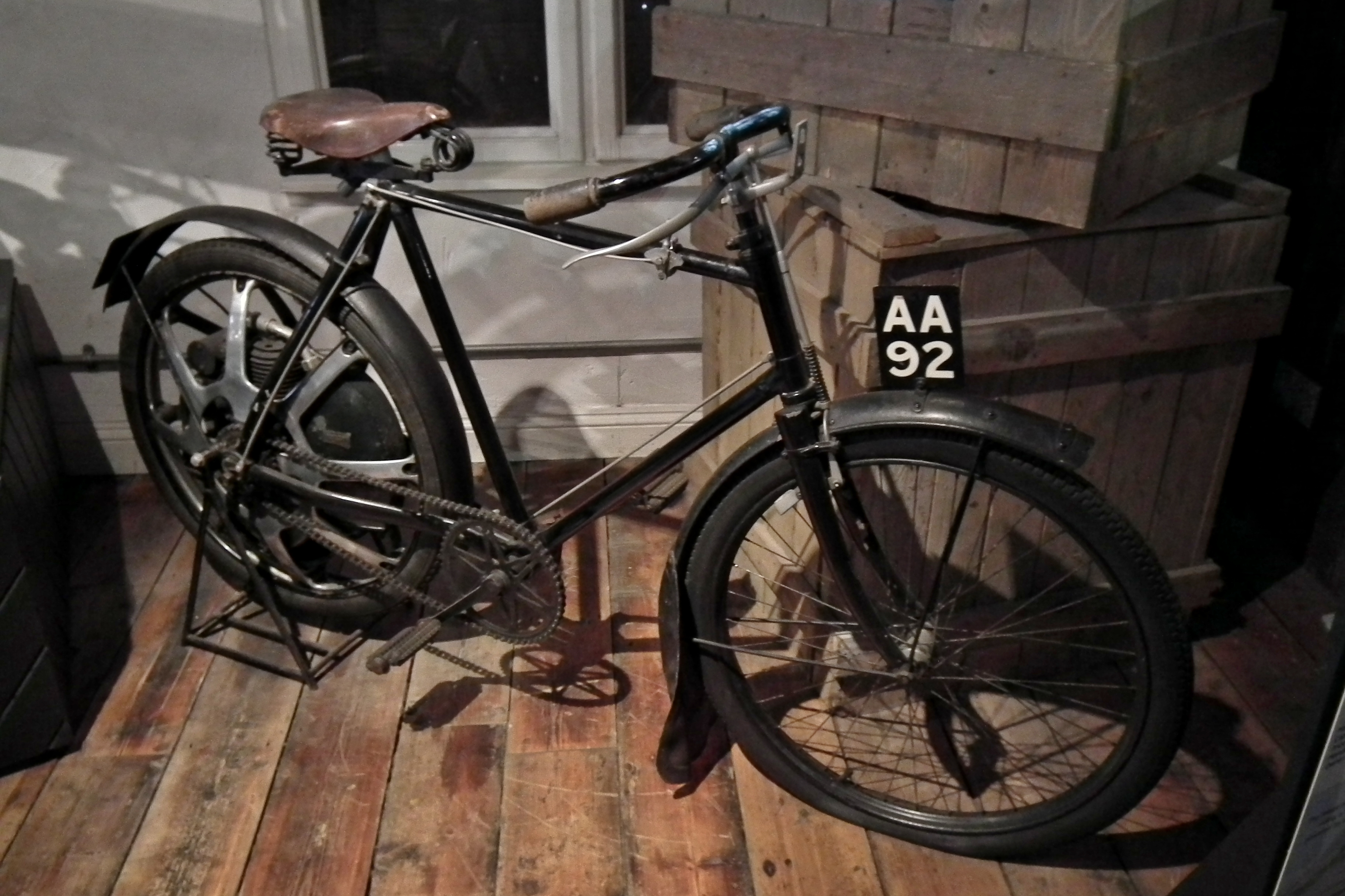 1899 Perks & Birch Autowheel motorcycle. Taken at the National Motor Museum in Beaulieu, Hampshire, England.